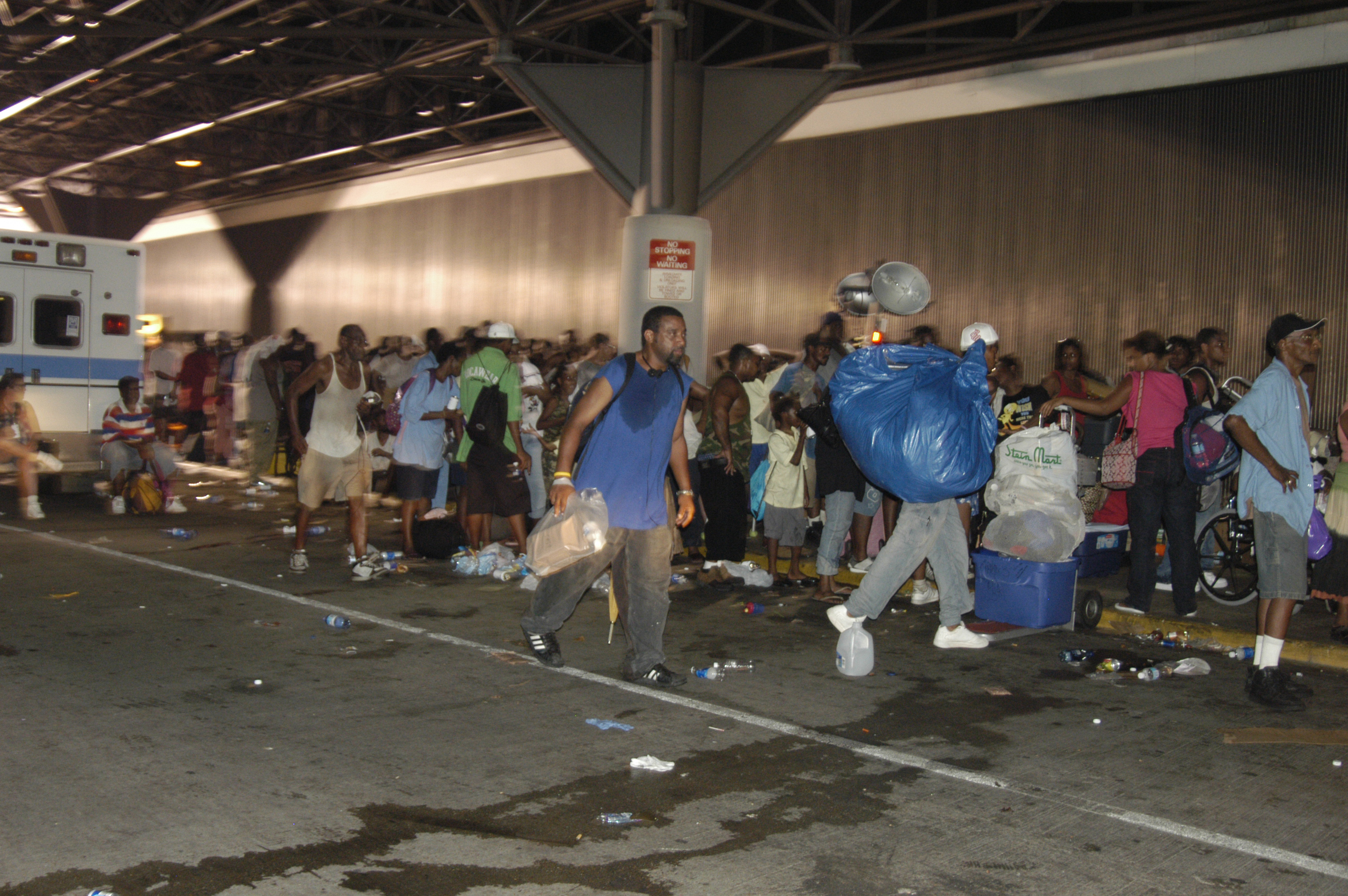 New Orelans, LA 9/3/05 -- Evacuees from New Orleans are taken to the airport, given food and water, and put on flights to shelters in cities throughout the country. New Orleans is being evacuated as a result of floods caused by hurricane Katrina. Photo by: Liz Roll.